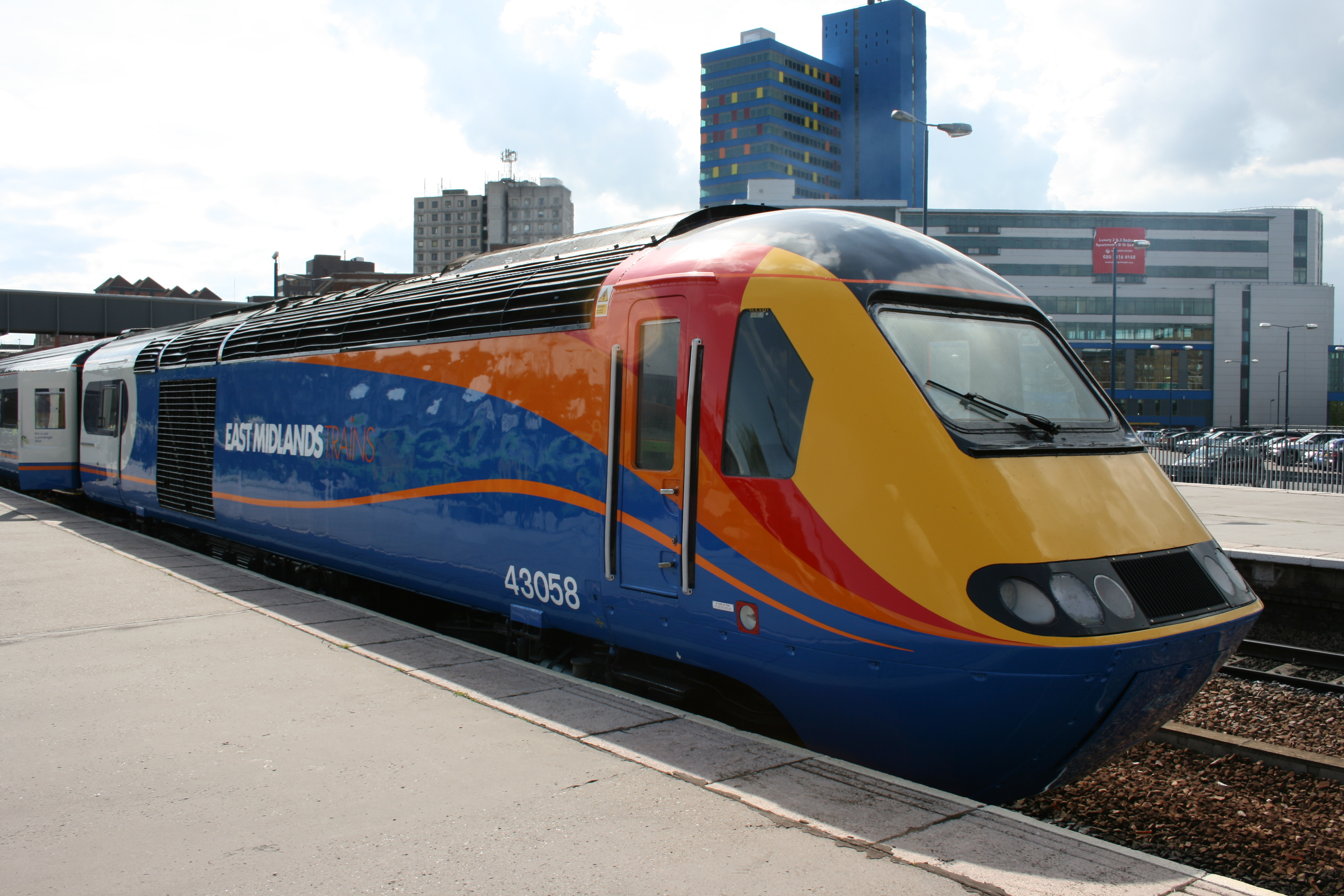 East Midlands Trains Class 43 no. 43058, the first EMT Class 43 in the company's livery, shown on the first day in operation at Leicester railway station with a southbound service.